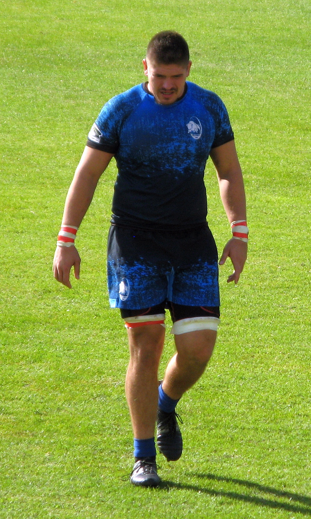 Romanian rugby union international Răzvan Ailenei, player of CSM Baia Mare rugby club seen in a match against CSA Steaua București in Round 5 of Romanian Rugby SuperLiga in September 2017